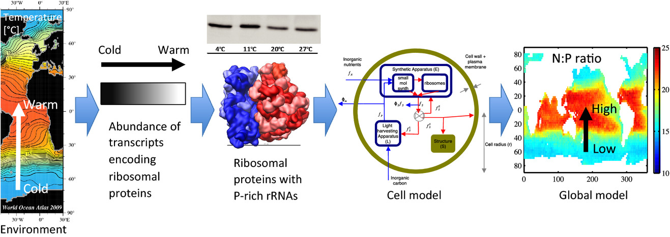 Informing the Earth system science with marine phytoplankton by omics data. Metatranscriptome sequences from natural phytoplankton communities helped to identify physiological traits (cellular concentration of ribosomes and their rRNAs) underpinning adaptation to environmental conditions (temperature). A mechanistic phytoplankton cell model was used to test the significance of the identified physiological trait for cellular stoichiometry. Environmental selection in a trait‐based global marine ecosystem model was then linking emergent growth and cellular allocation strategies to large‐scale patterns in light, nutrients and temperature in the surface marine environment. Global predictions of cellular resource allocation and stoichiometry (N:P ratio) were consistent with patterns in metatranscriptome data (Toseland et al ., 2013) and latitudinal patterns in the elemental ratios of marine plankton and organic matter (Martiny et al ., 2013). Three‐dimensional view of ribosome was taken from Wikipedia, showing rRNA in dark blue and dark red. Lighter colours represent ribosomal proteins. Bands above show temperature‐dependent abundance of the eukaryotic ribosomal protein S14, adapted from Toseland et al . (2013). Toseland A, Daines SJ and Clark JR et al . (2013) "The impact of temperature on marine phytoplankton resource allocation and metabolism". Nature Climate Change, 3: 979– 984. Martiny AC, Pham CTA, Primeau FW, Vrugt JA, Moore JK, Levin SA and Lomas MW (2013) "Strong latitudinal patterns in the elemental ratios of marine plankton and organic matter". Nature Geoscience, 6: 279–283.